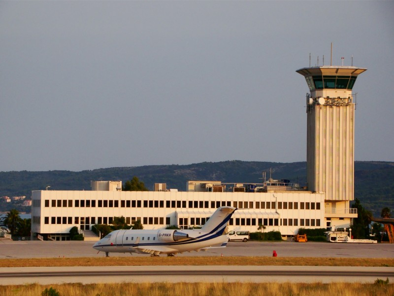 Air traffic control tower at Split Airport